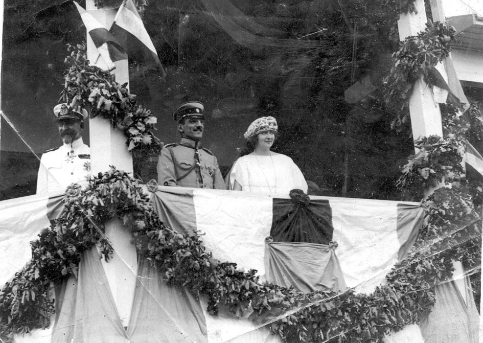 Wedding of Alexander I of Yugoslavia & Princess Marie of Romania